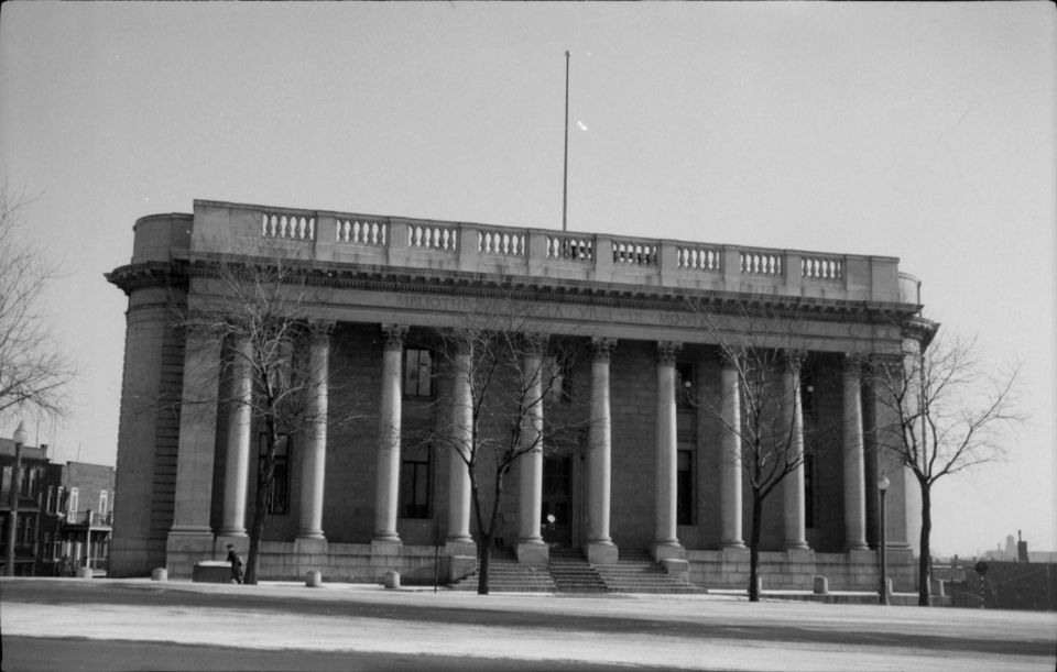 We see the building of the library of the city of Montreal, located at 1210 Sherbrooke Street East.